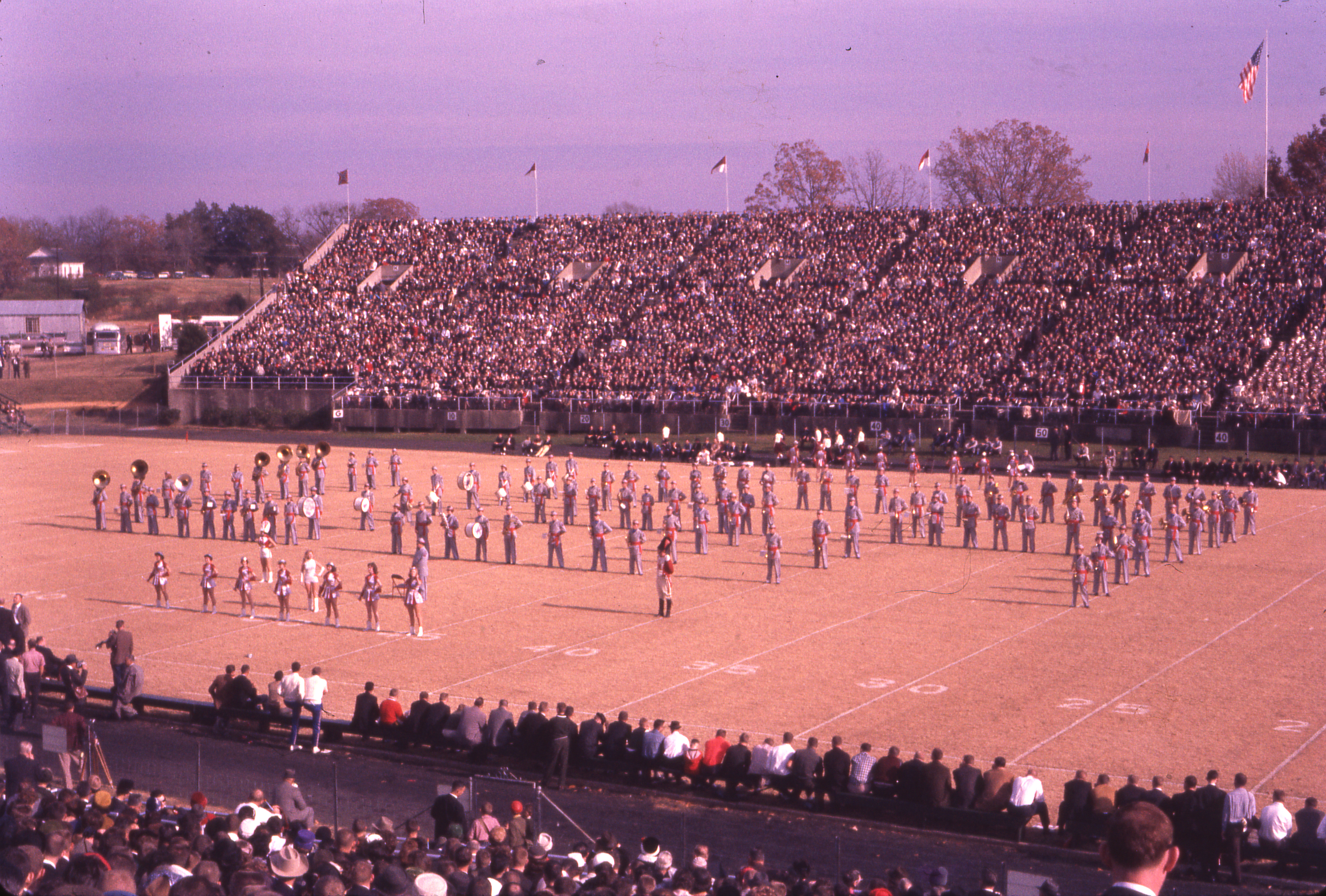 Collection: Shankle, Hugh W., Collection Call number: PI/COL/1981.0066 System ID: 106211. Link to the catalog Ole Miss football game at Hemingway Stadium. Please see our profile page for information on ordering. Scanned as TIFF in 2011/09/20 by MDAH. Credit: Courtesy of the Mississippi Department of Archives and History